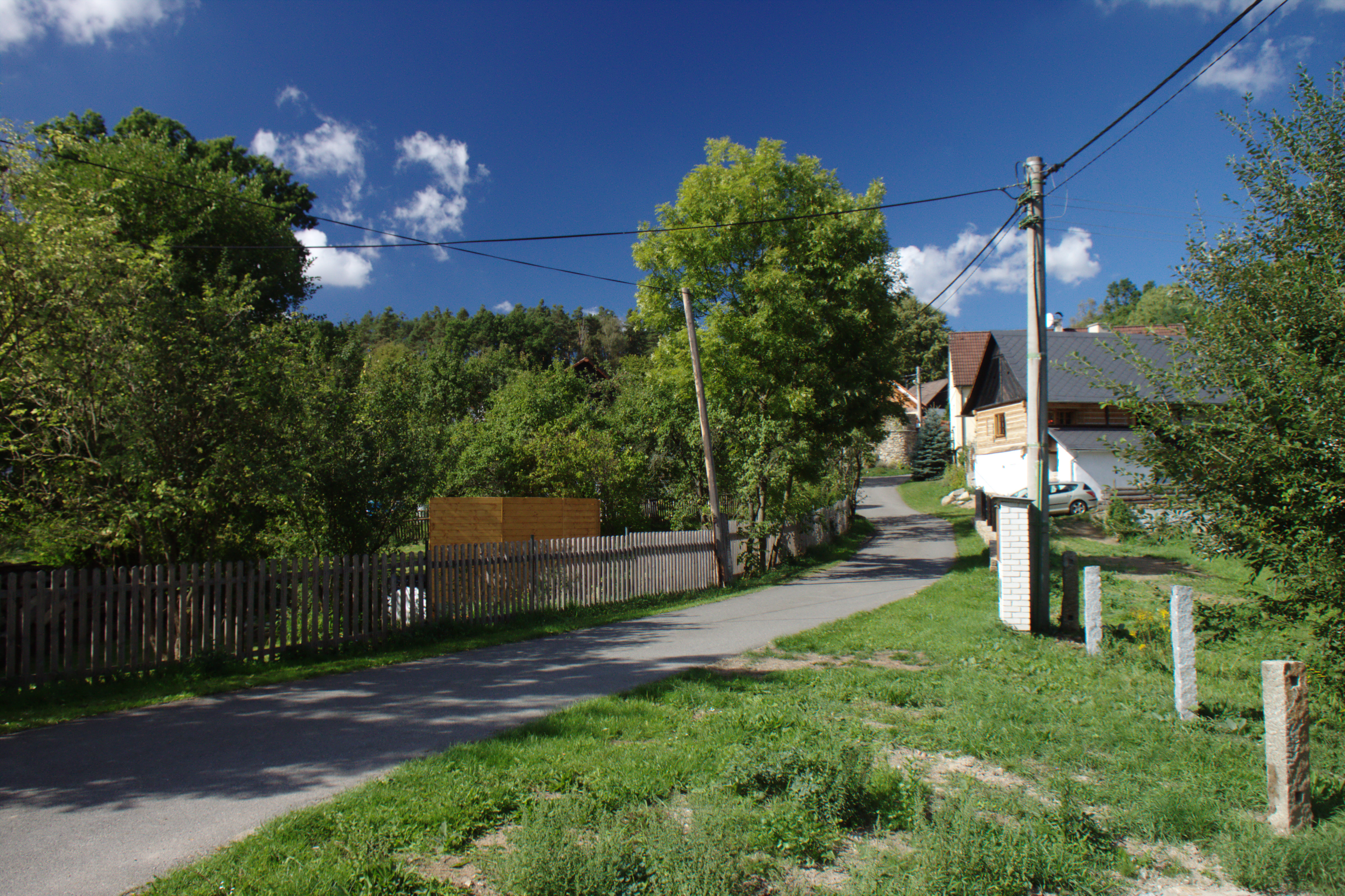 A common in Rudoltice, Central Bohemian Region, CZ